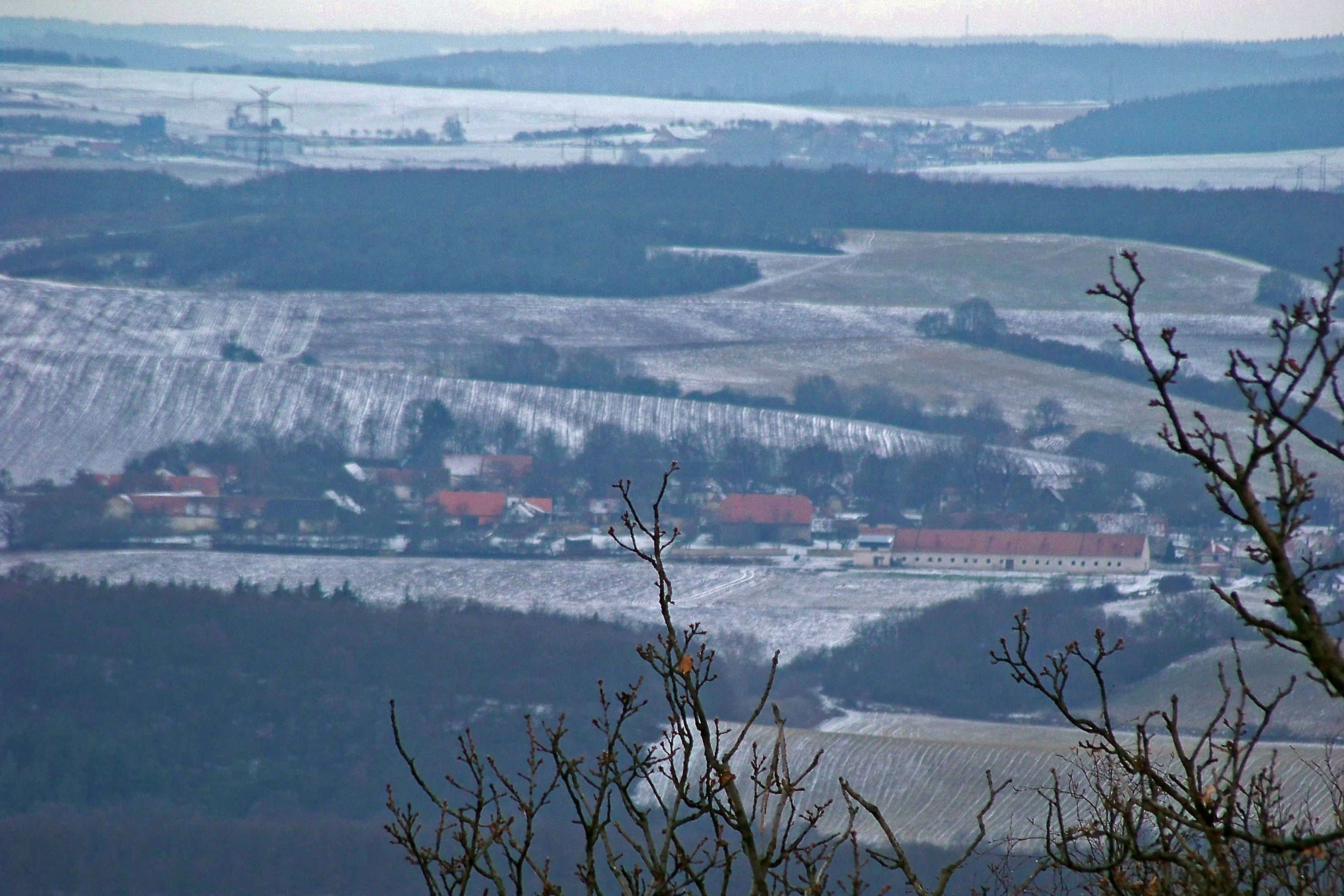 Mořinka, Beroun District, Central Bohemian Region, the Czech Republic. A view from Hvíždinec hill at the Hřebeny of Brdy.